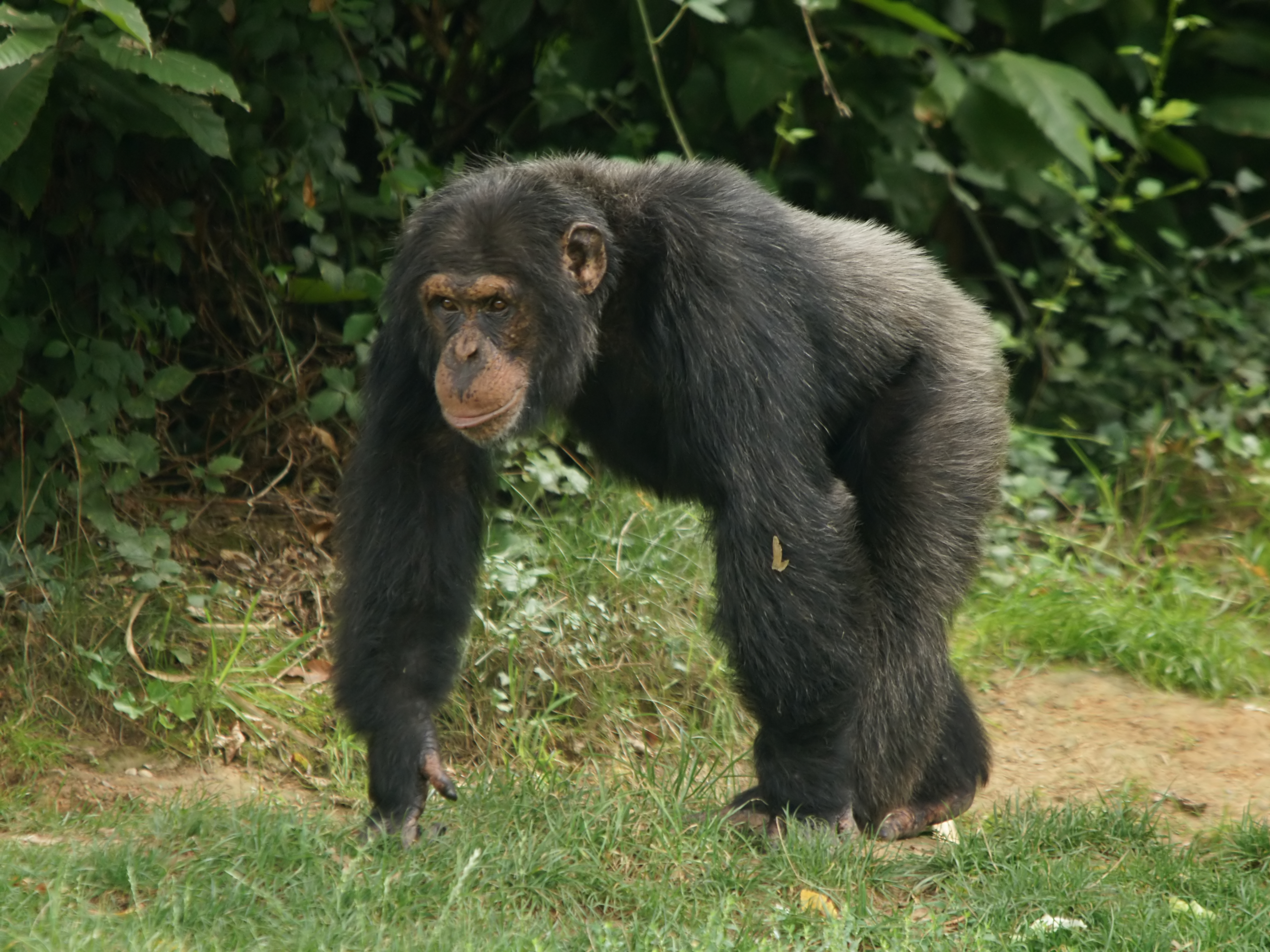 Male Chimpanzee at La Vallée de Singes, at Romagne (Vienne, Poitou-Charentes), France.